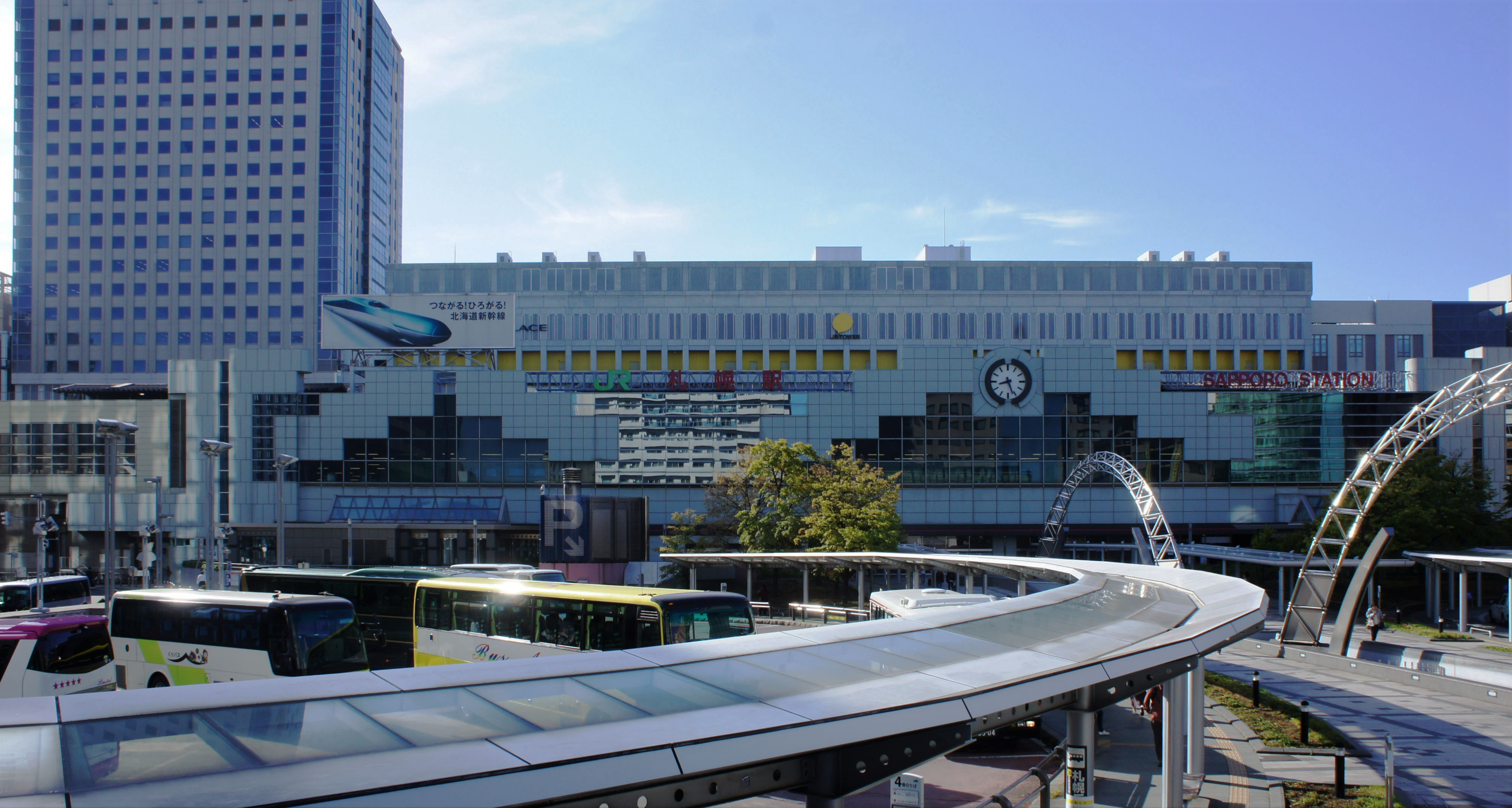 North Exit of JR Sapporo Station